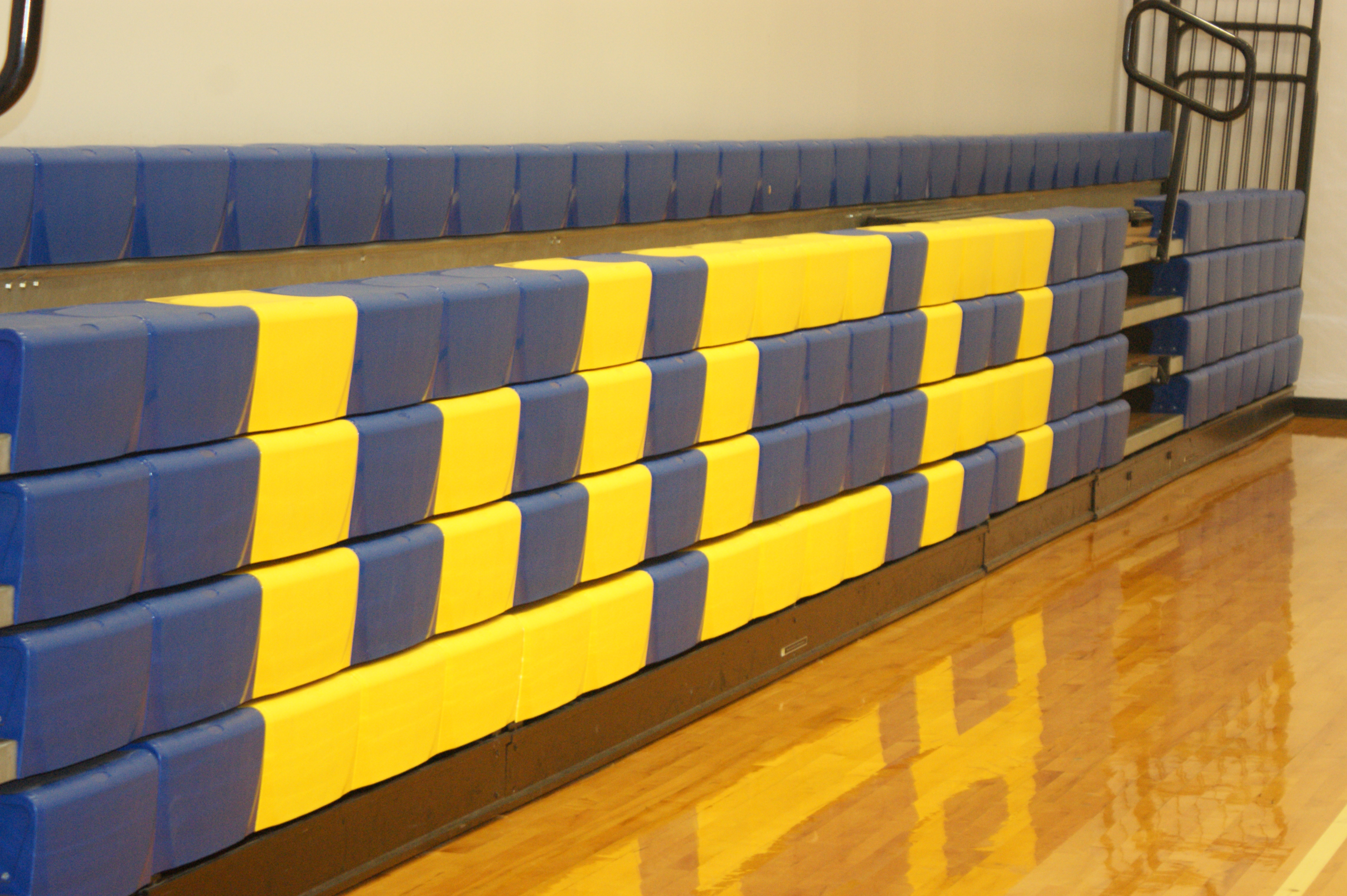 This is aphoto of Williamsburg Christian Academy's gymnasium stands in Williamsburg, VA